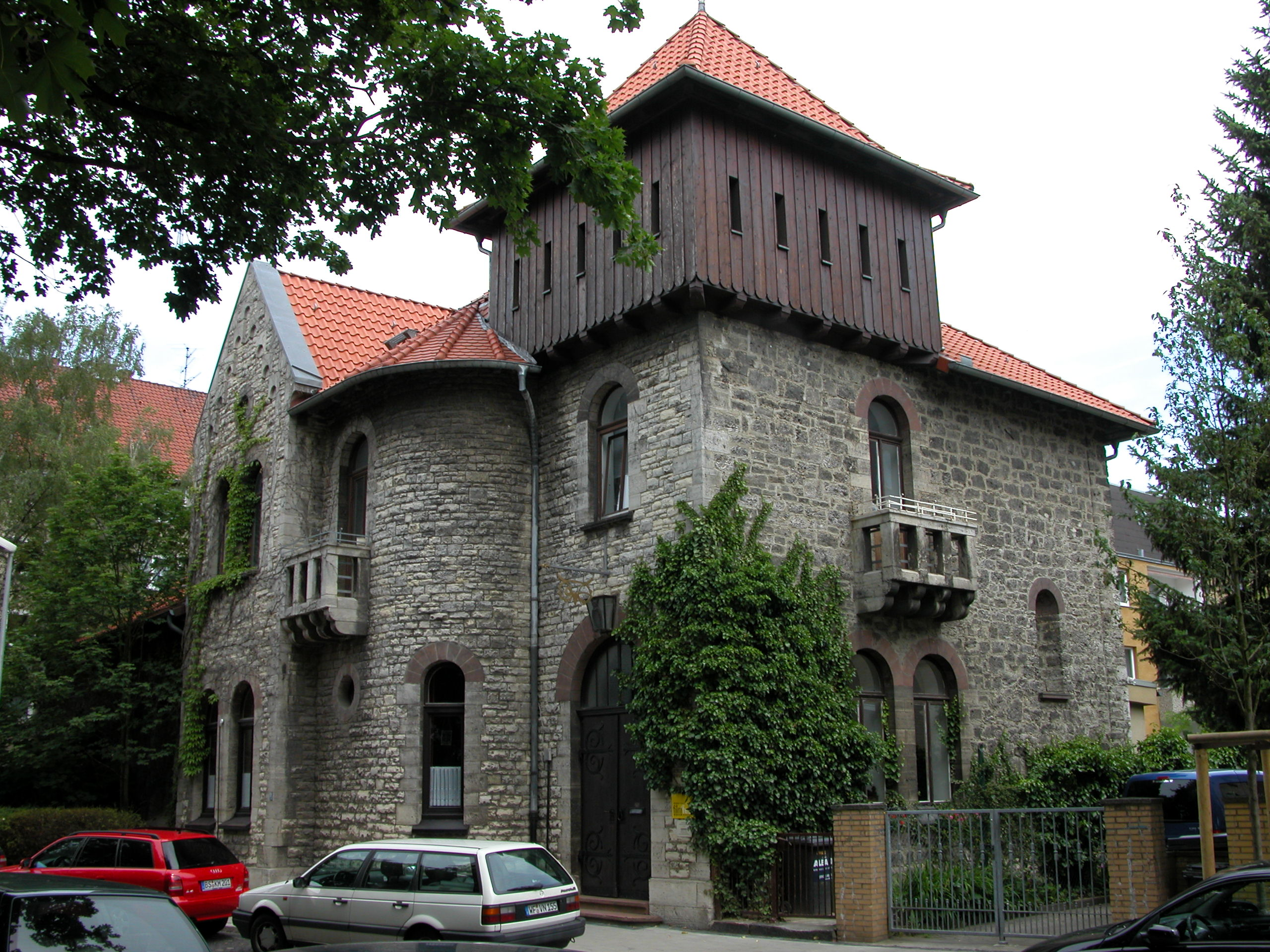 Brunswick, Germany: Okerburg as seen from the southwest.